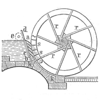 Water wheel - middle-shot